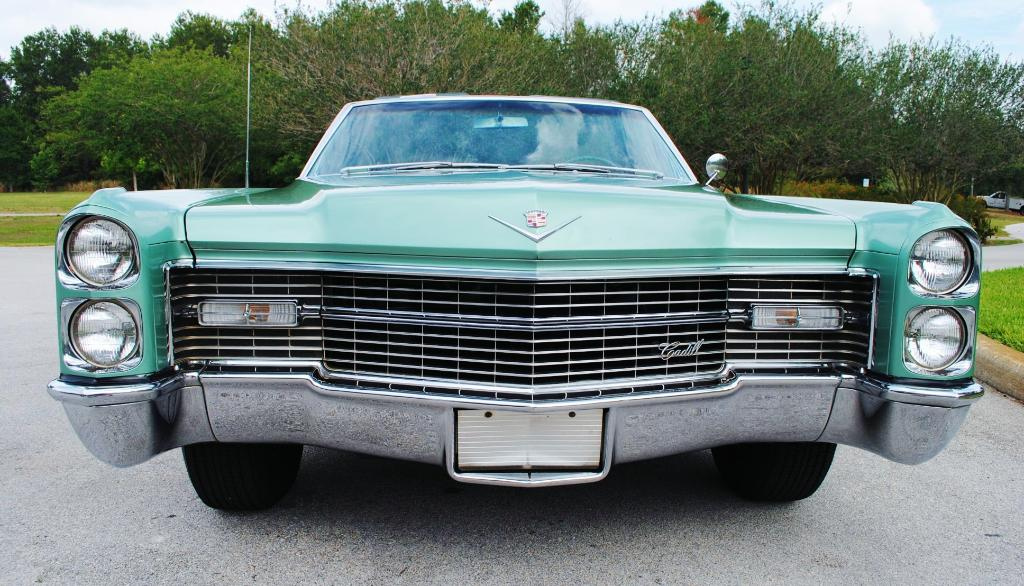 This is a picture of a vehicle (name of it is on the file name).